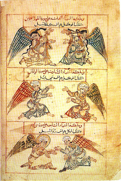 A manuscript copied in 14th century.